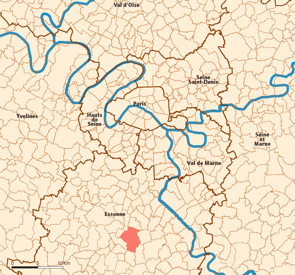 Created map myself